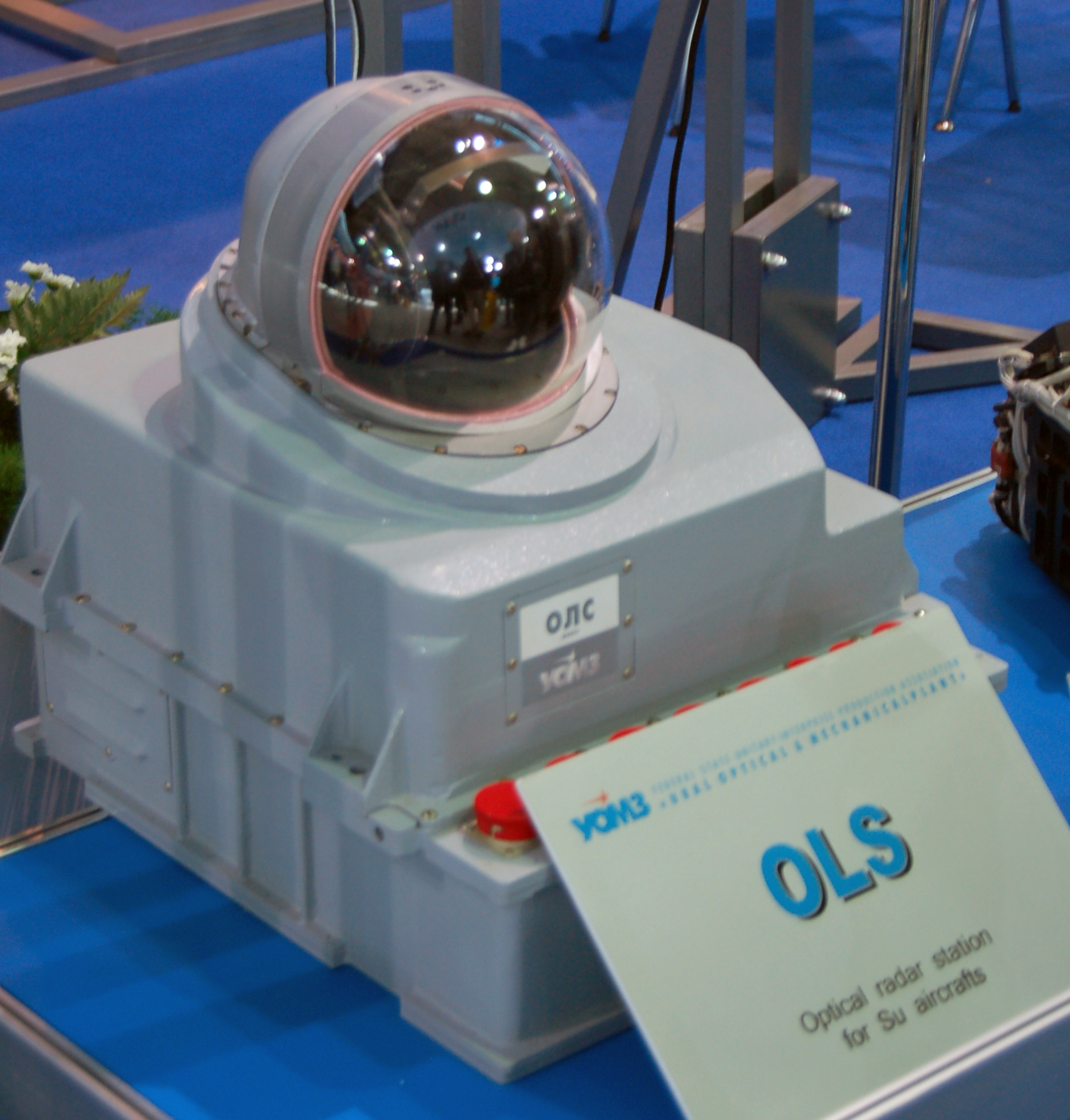 Optical radar station for Su aircraft. MAKS-2009